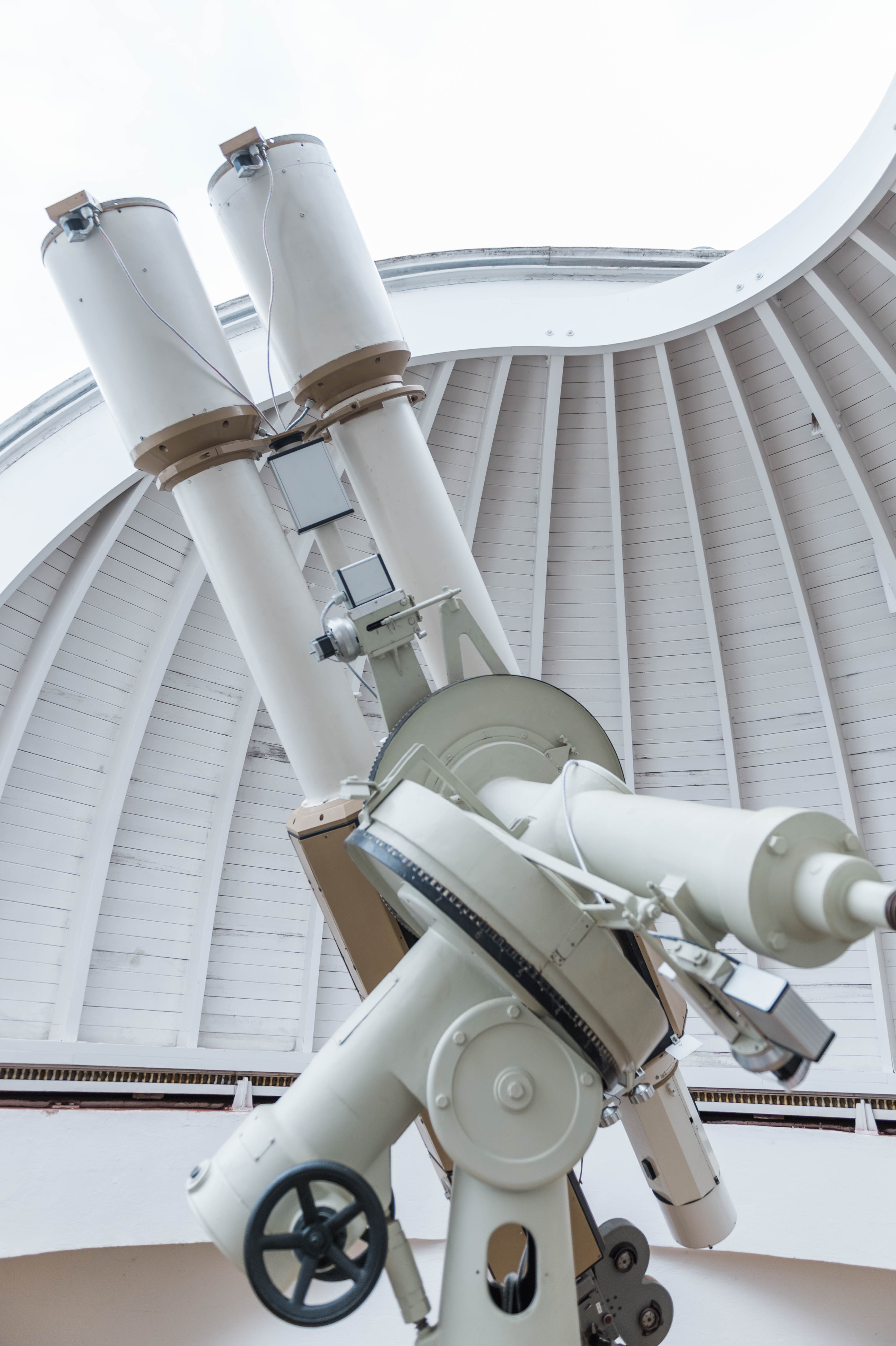 The Ondřejov Observatory is the principal observatory of the Astronomical Institute (Astronomický ústav) of the Academy of Sciences of the Czech Republic. It is located near the village of Ondřejov, 35 kilometers southeast of Prague, Czech Republic. It have a 2-meter wide telescope, which is the largest in the Czech Republic.